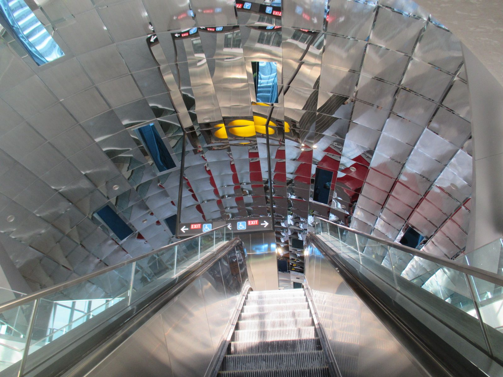 Atmospheric Lense is an artwork consisting of coloured mirrored panels located on the dome of Vaughan Metropolitan Centre subway station